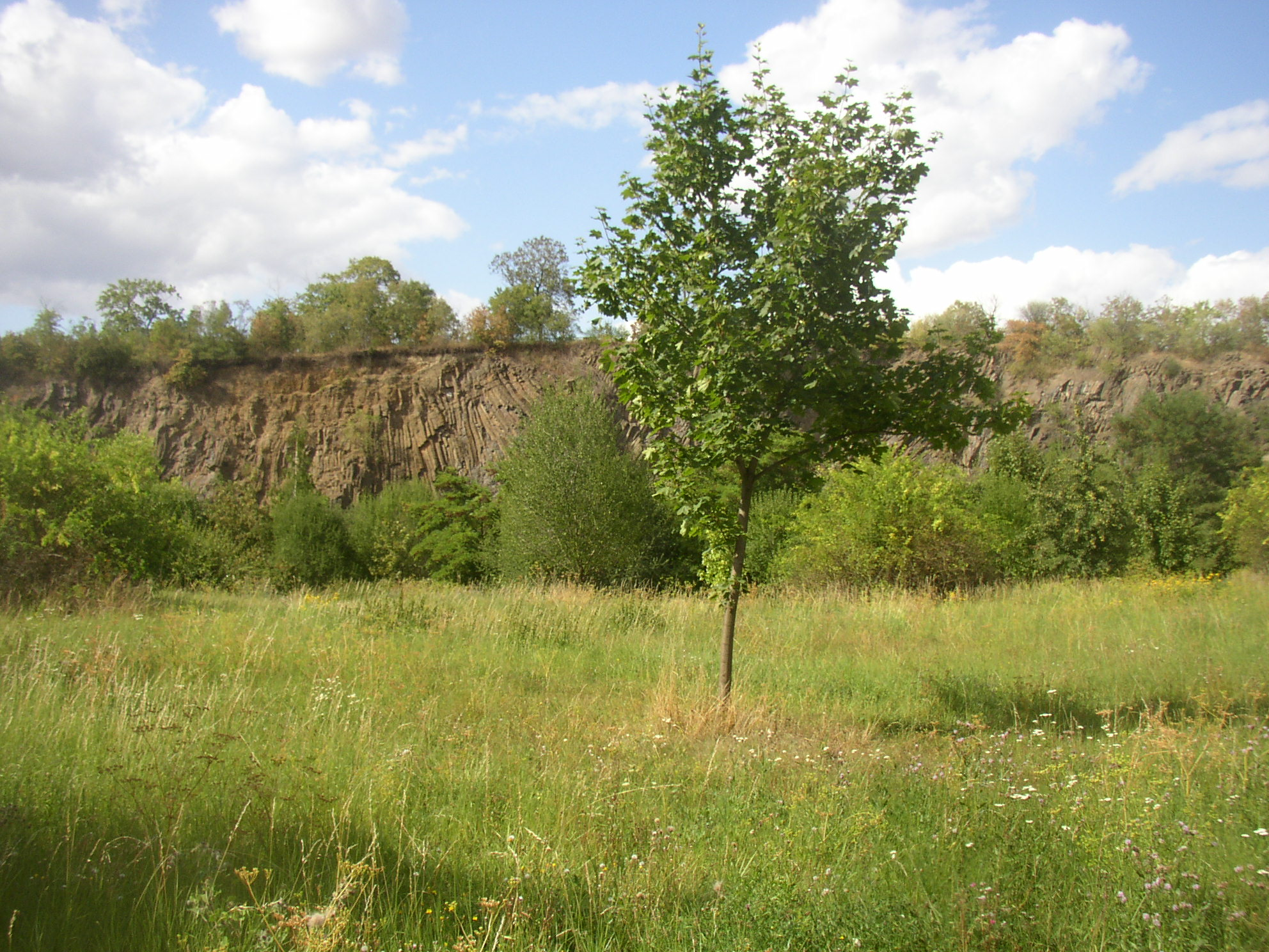 Slánská hora hill in town of Slaný, Kladno District, Czech Republic). Wall of former basalt quarry as seen from educational trail station No 7.